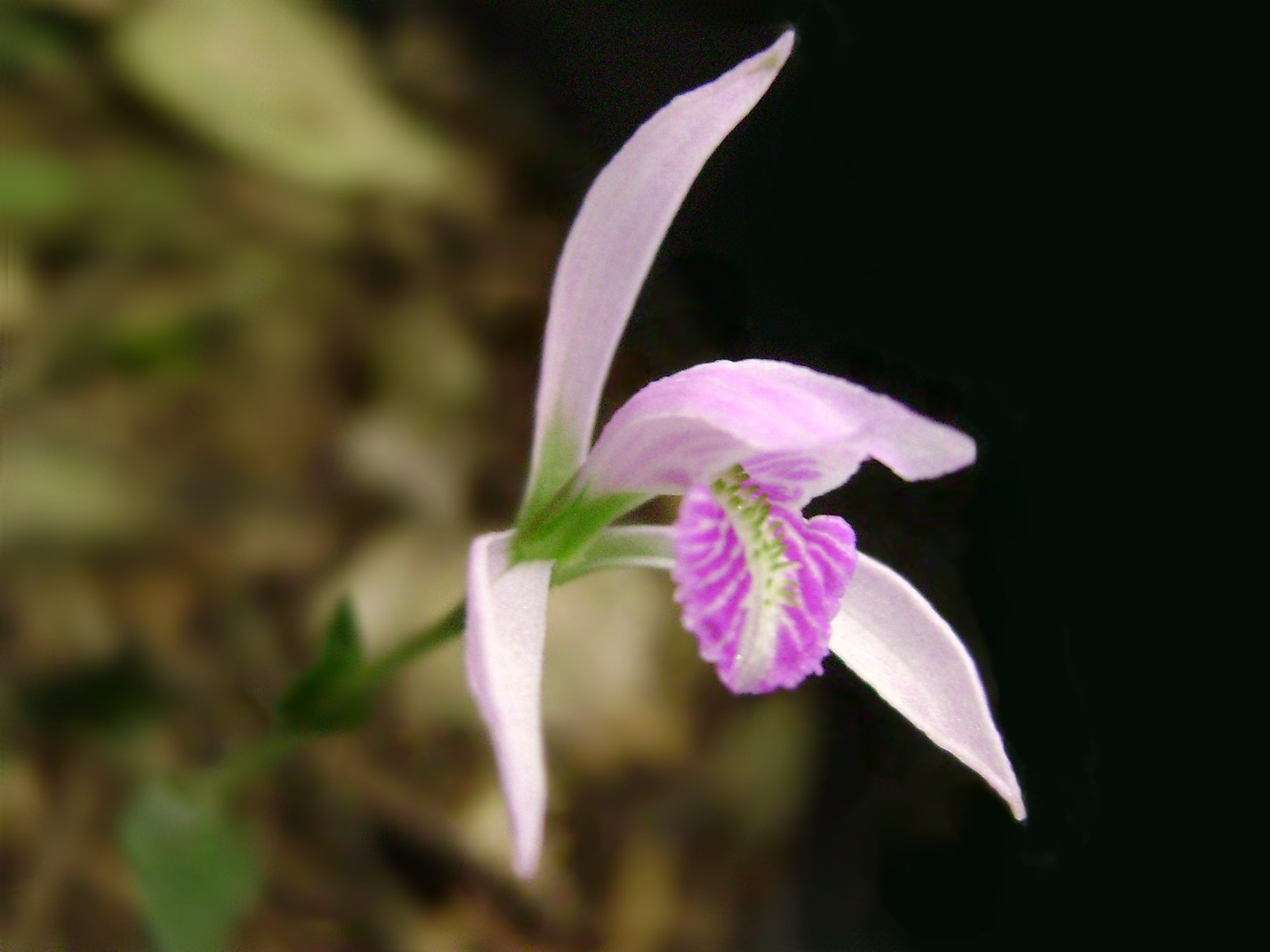 Photo by me and Alessandro Ferreira of the plant used to make the typus.